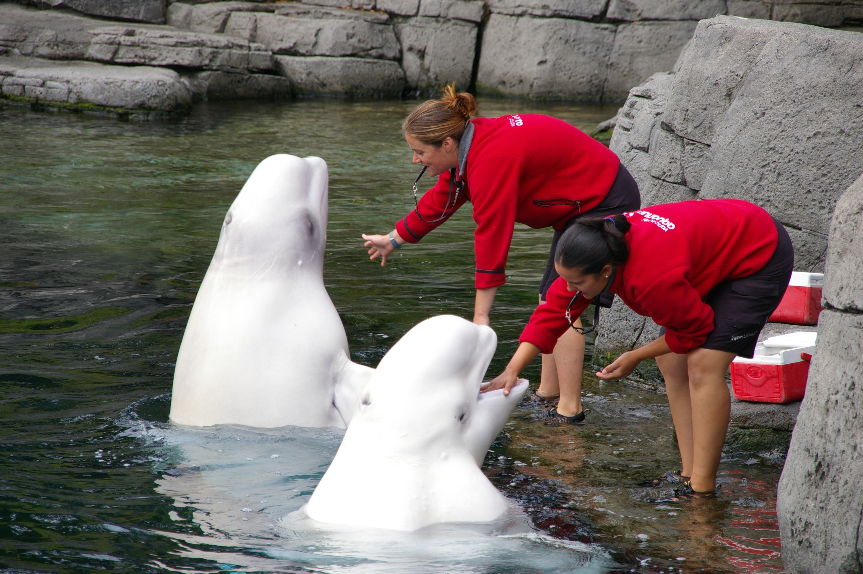 Two Beluga Whales and two zoo keepers at Vancouver Aquarium, Canada.